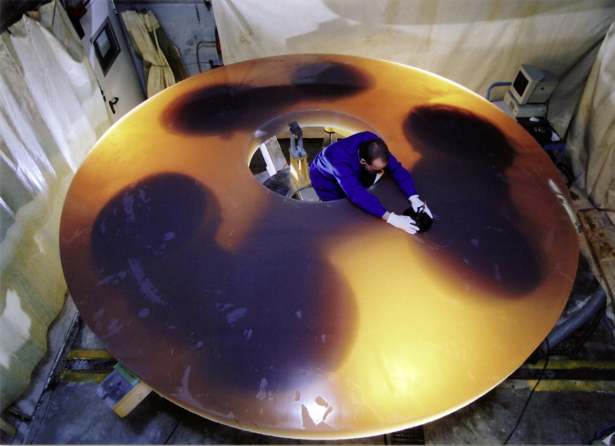 The 4.1 m main VISTA mirror undergoing optical testing at Schott in Germany.